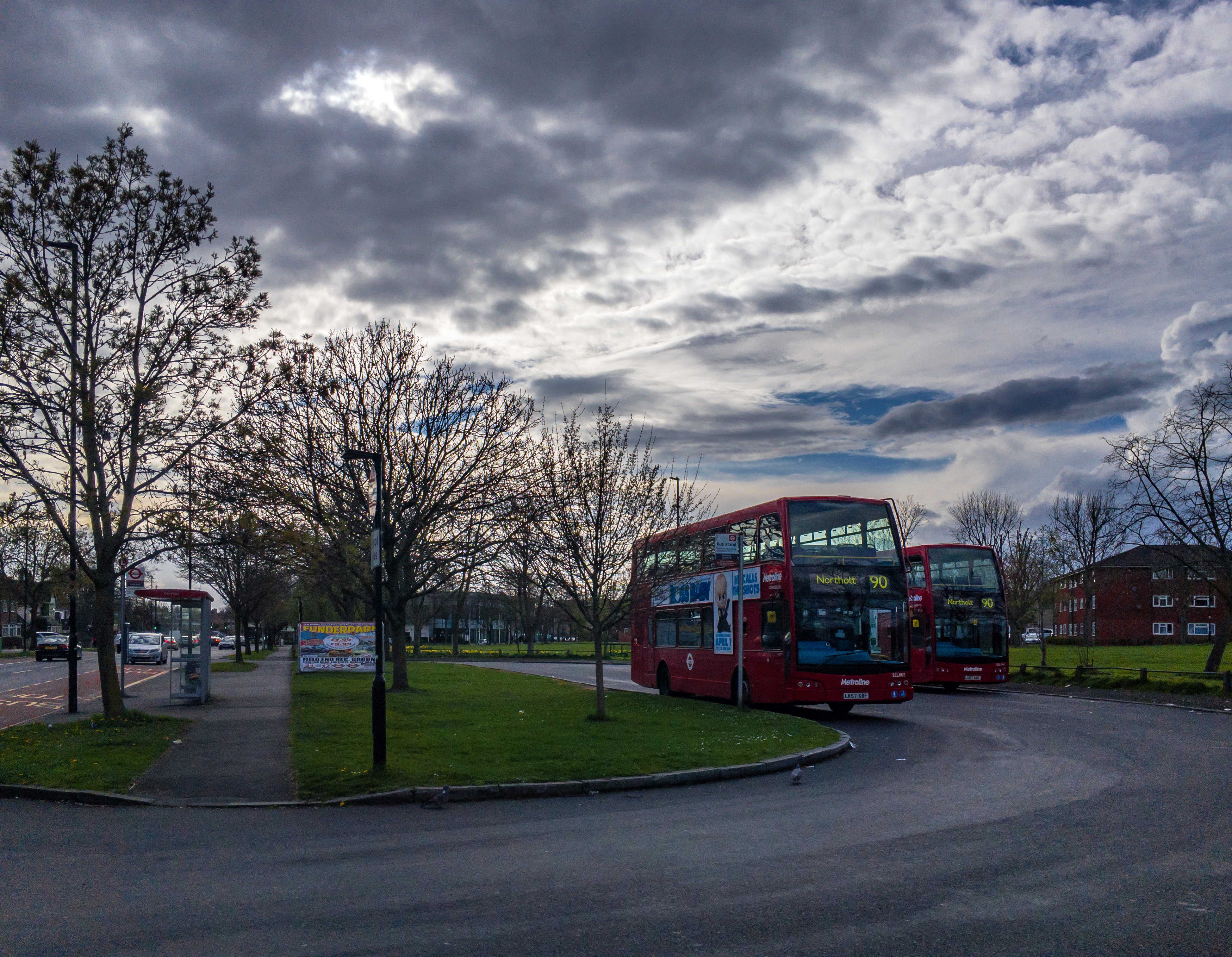 Northolt, UB6